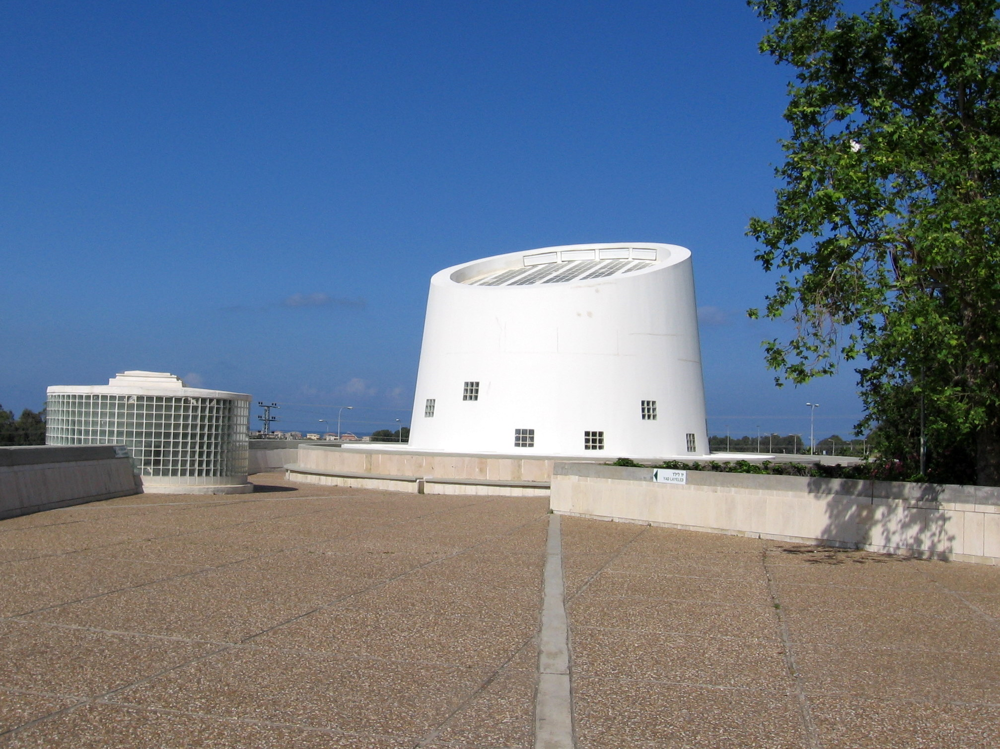 Ghetto Fighters' House - Children's memorial building